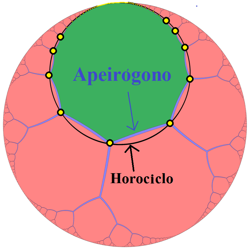 File:Order-3 apeirogonal tiling one cell horocycle.png with labels